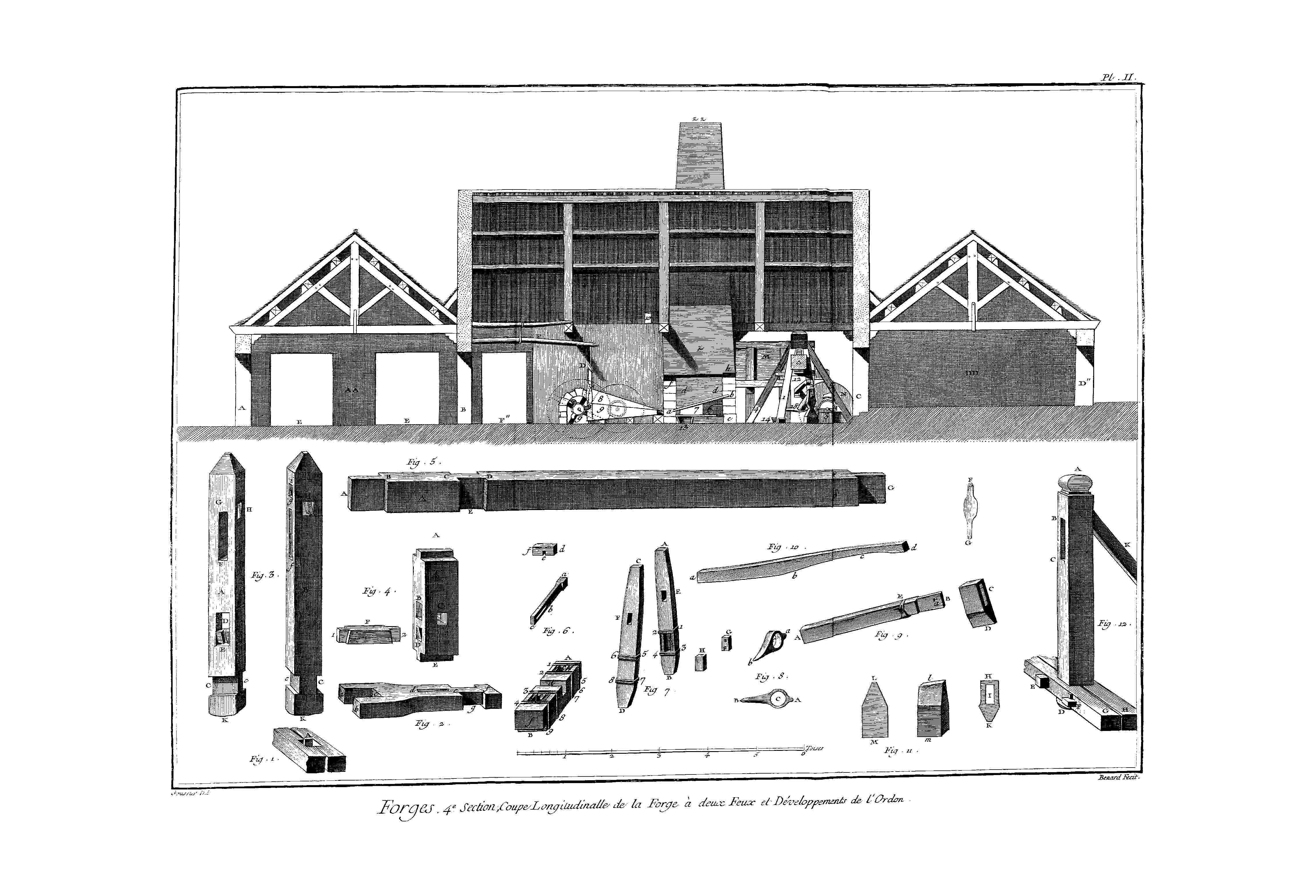 Planches de l'Encyclopédie de Diderot et d'Alembert, volume 3: Forges, 4th section, Pl. 2.